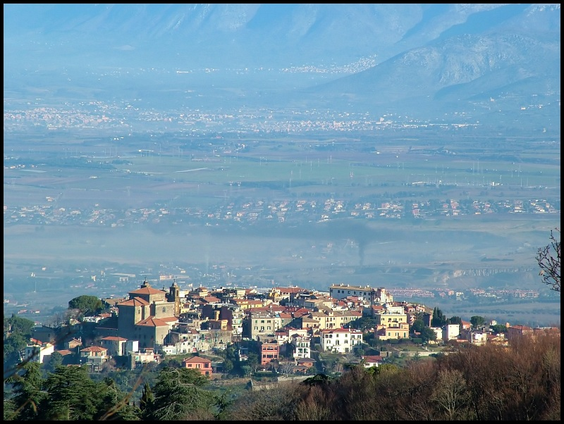 Monteporzio Catone, View of the town